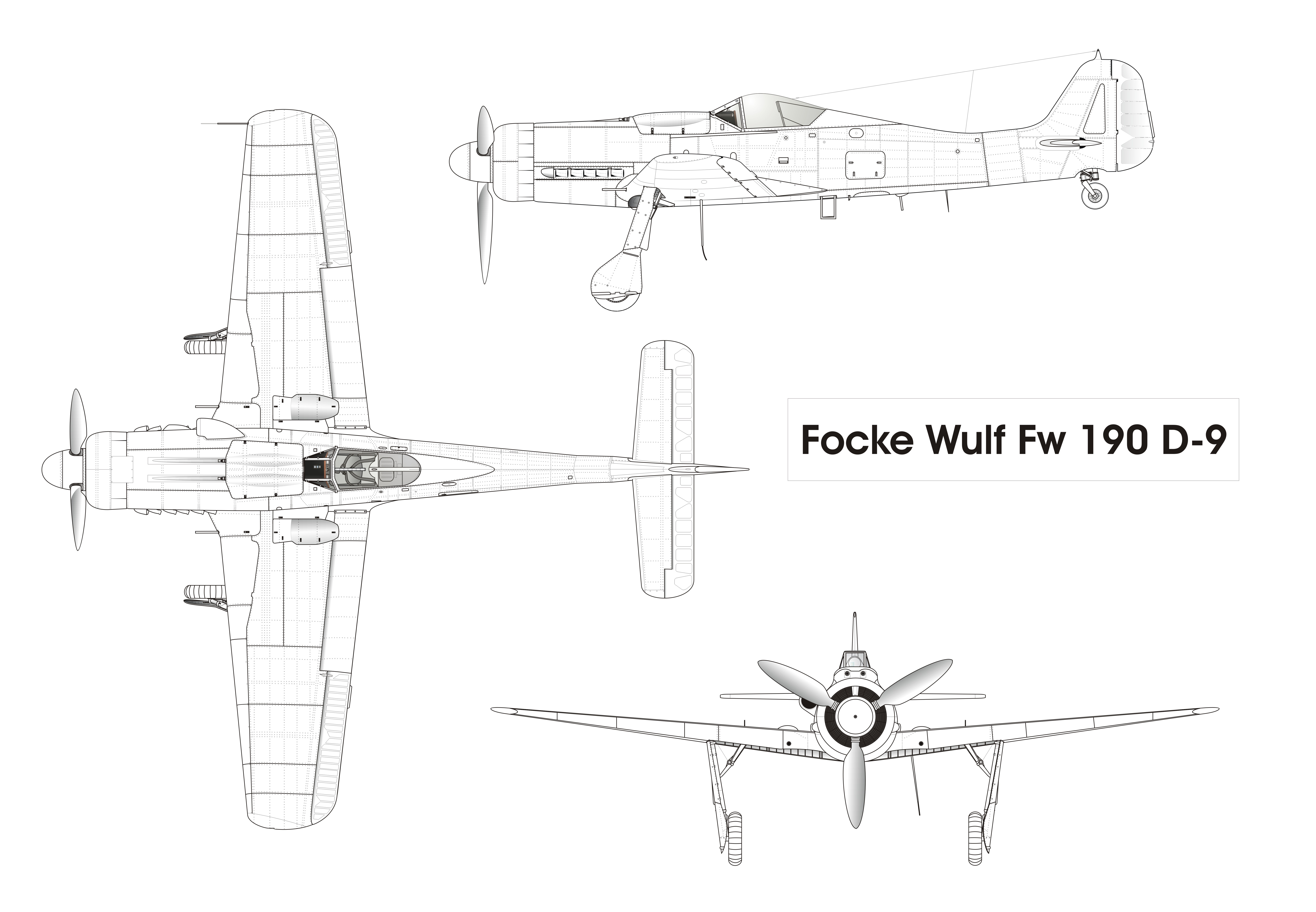 Three side view of a Focke Wulf Fw 190 D-9